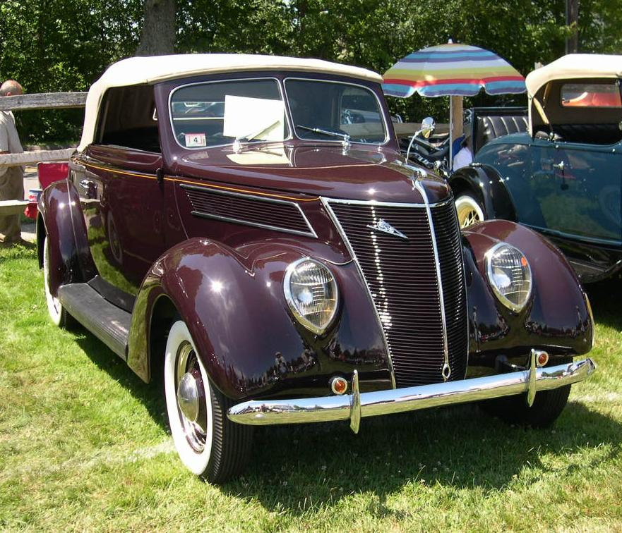 1937 Ford V8 Convertible Source: Photographed at the Bay State Antique Automobile Club's July 10, 2005 show at the Endicott Estate in Dedham, MA by User:Sfoskett